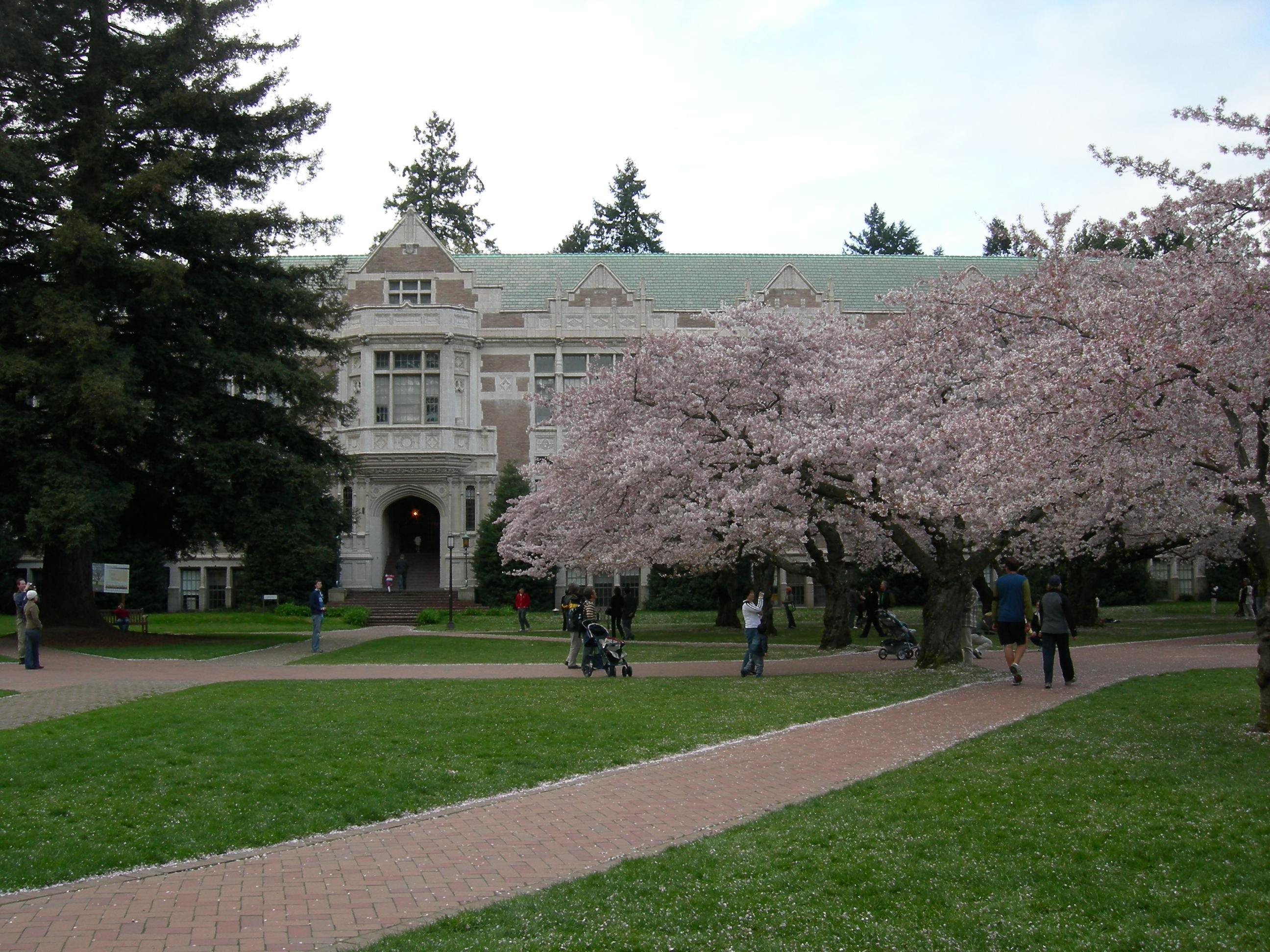 Cherry blossom time in the Quad, University of Washington, Seattle, Washington.